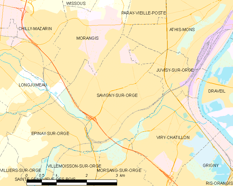 Map of French municipality Savigny-sur-Orge